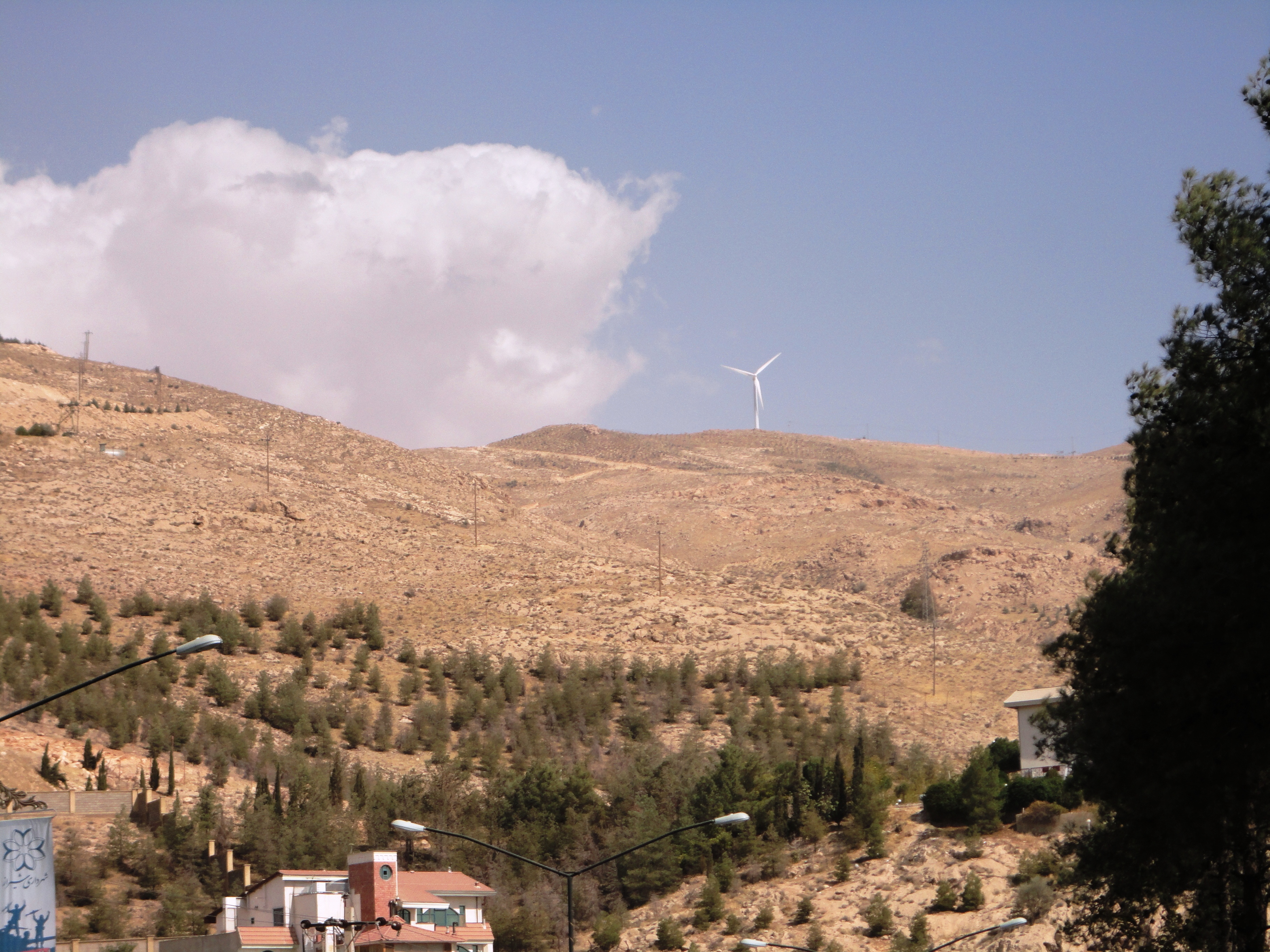 shiraz